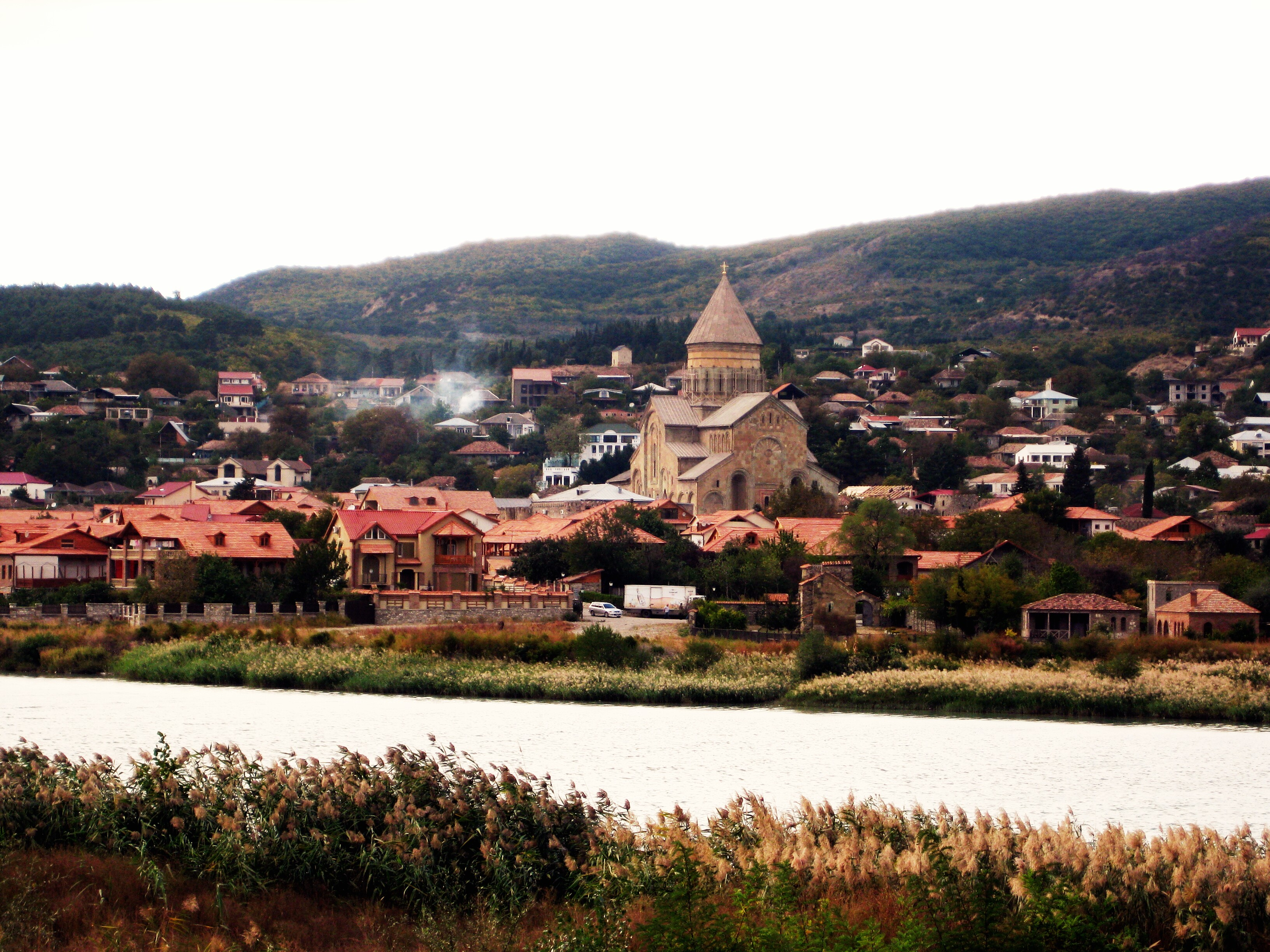 Mtskheta Svetitskhoveli